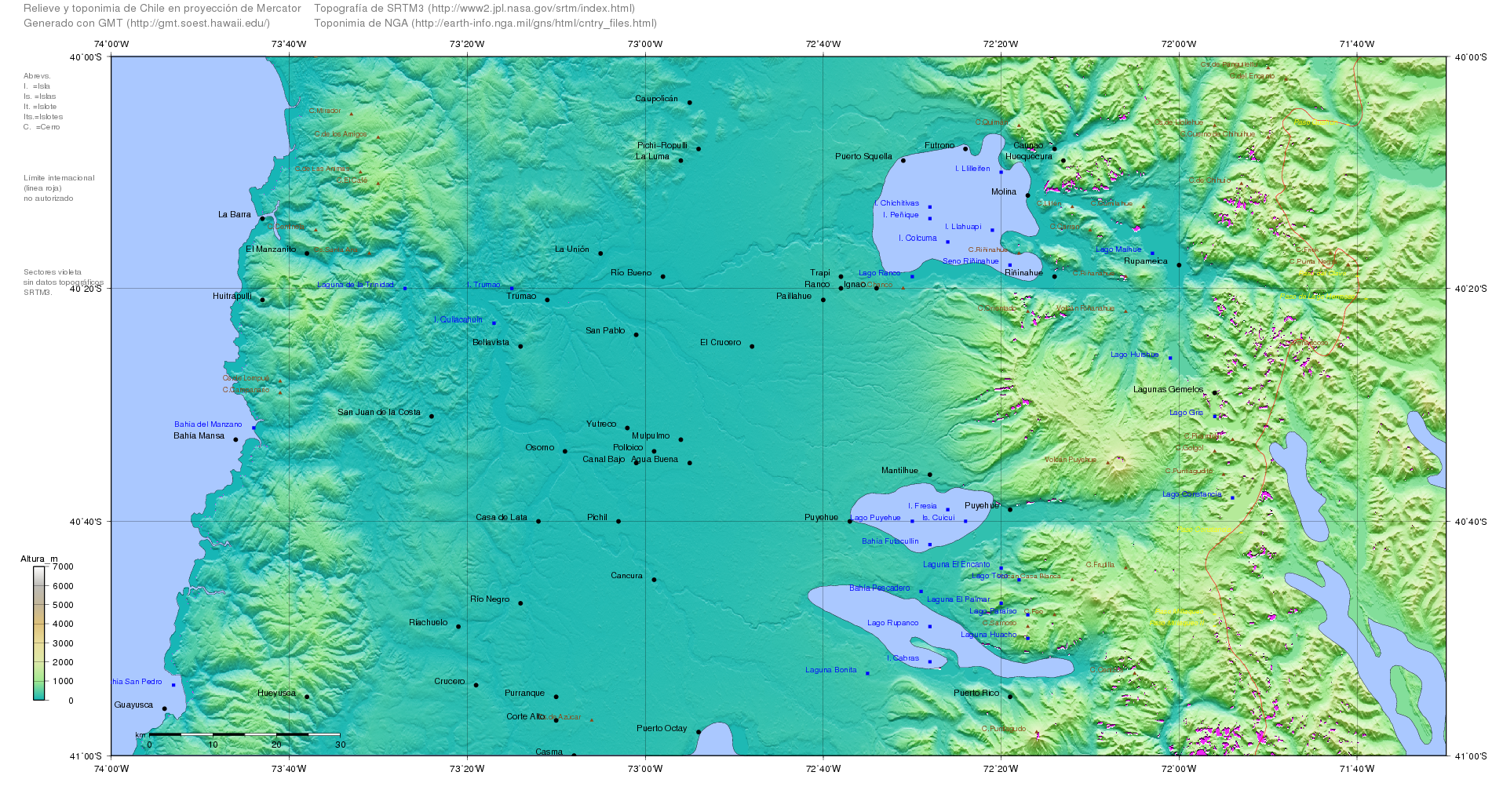 Map of Chile generated with GMT ( topography from SRTM ftp://e0srp01u.ecs.nasa.gov/srtm/version2/SRTM3/ and toponymy from